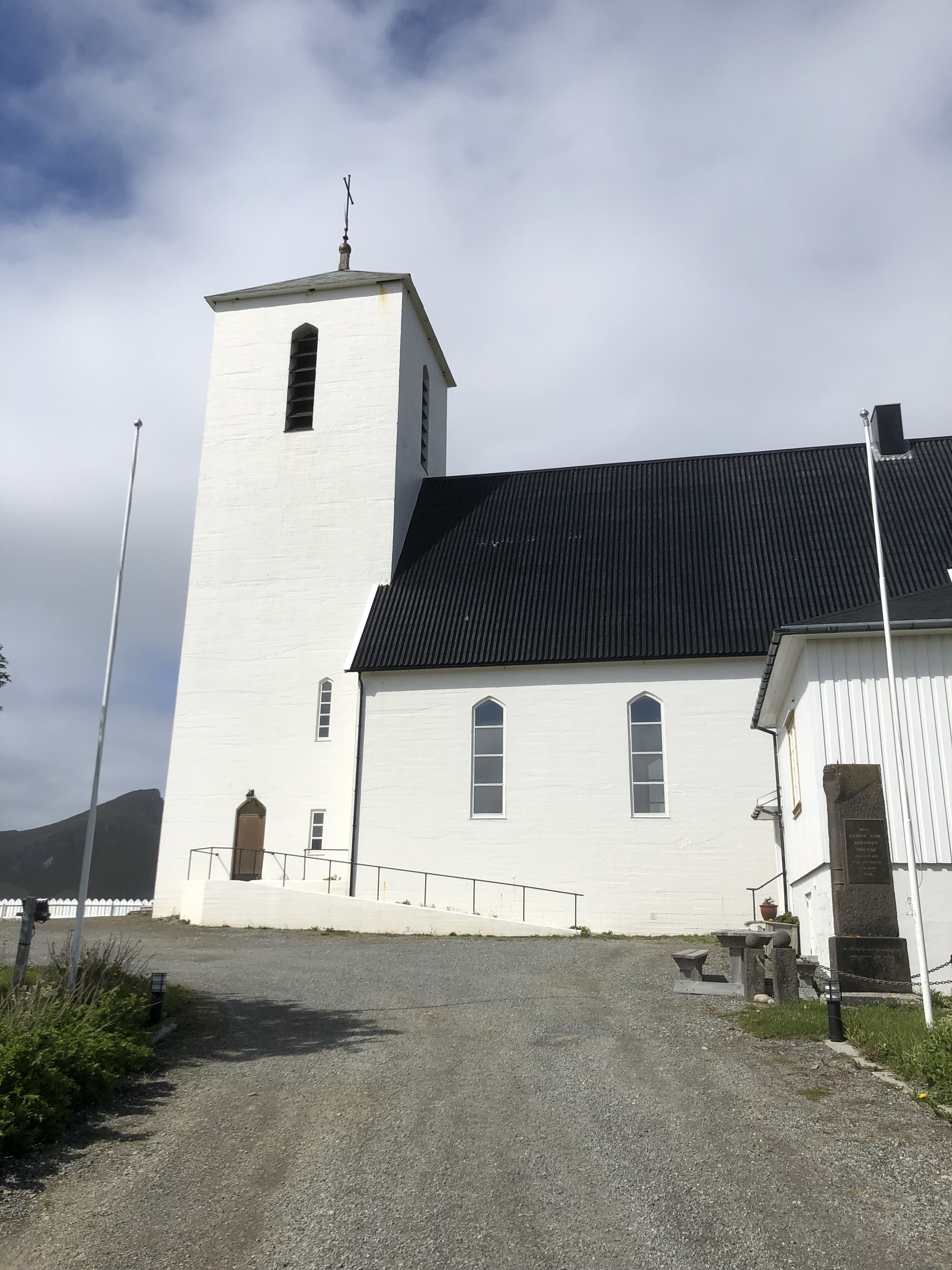 From Værøy Norway